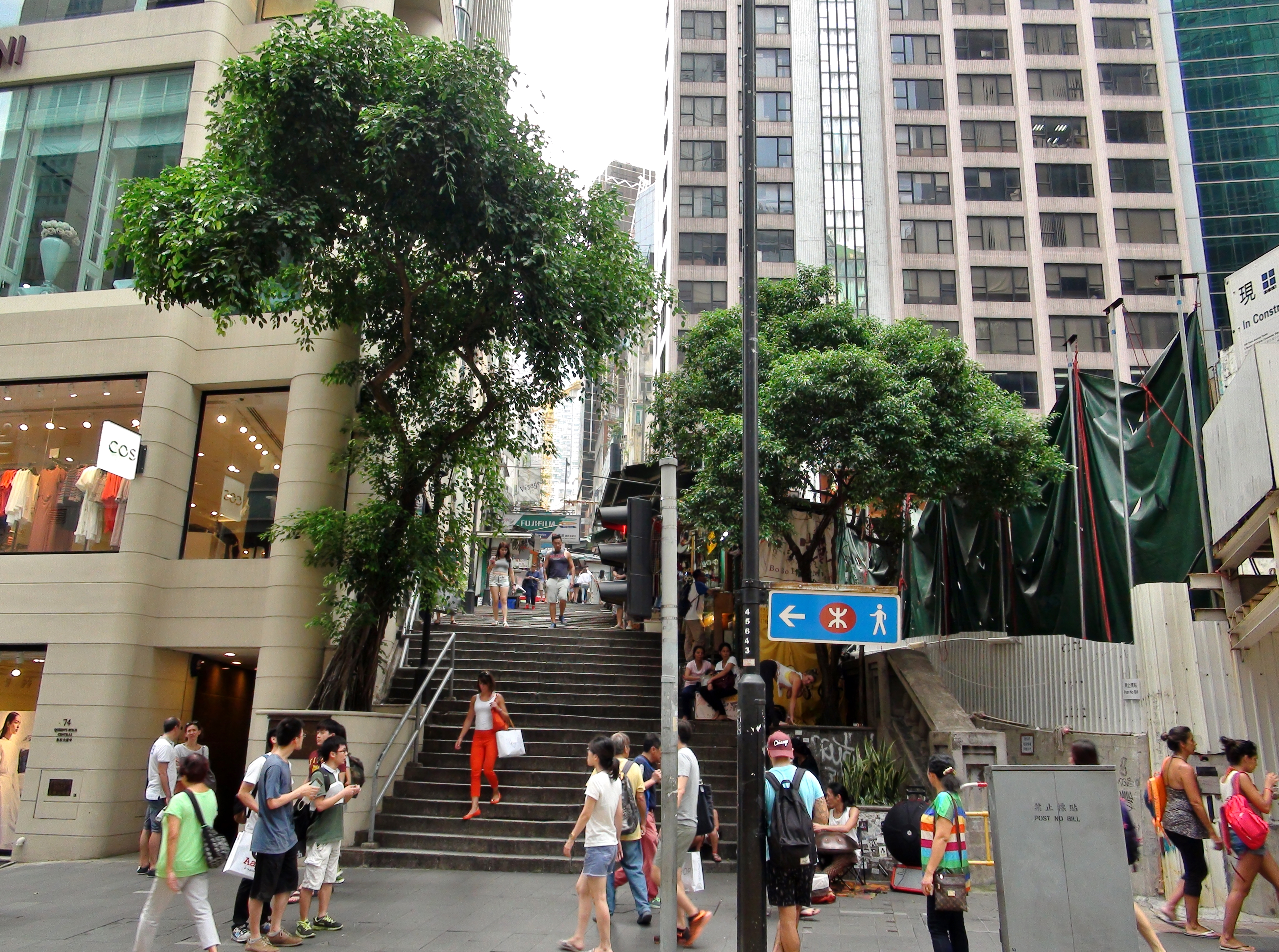 Pottinger Street stone steps at the bottom.Hong Kong Central.